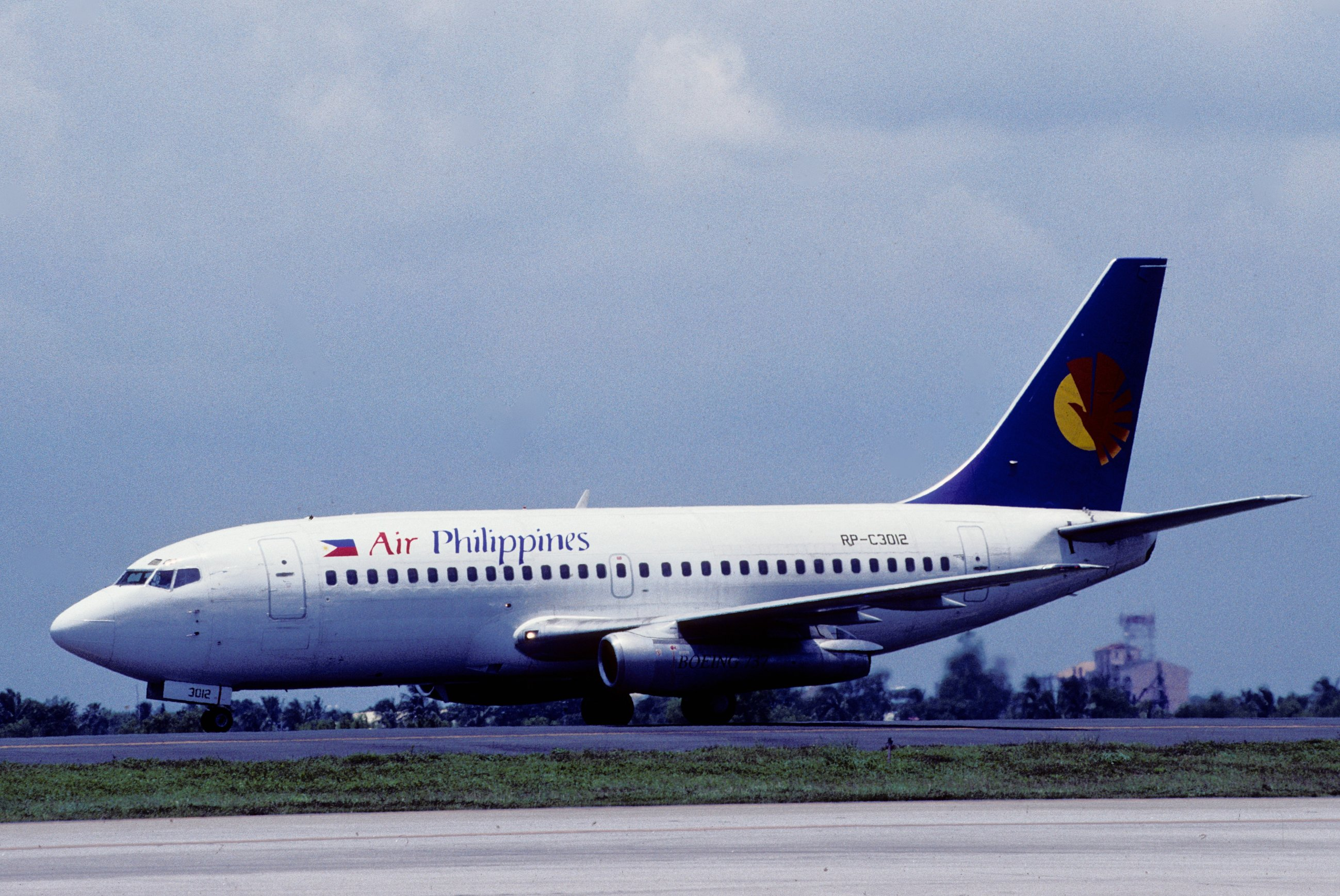 Air Philippines Boeing 737-2H4; RP-C3012, August 2001